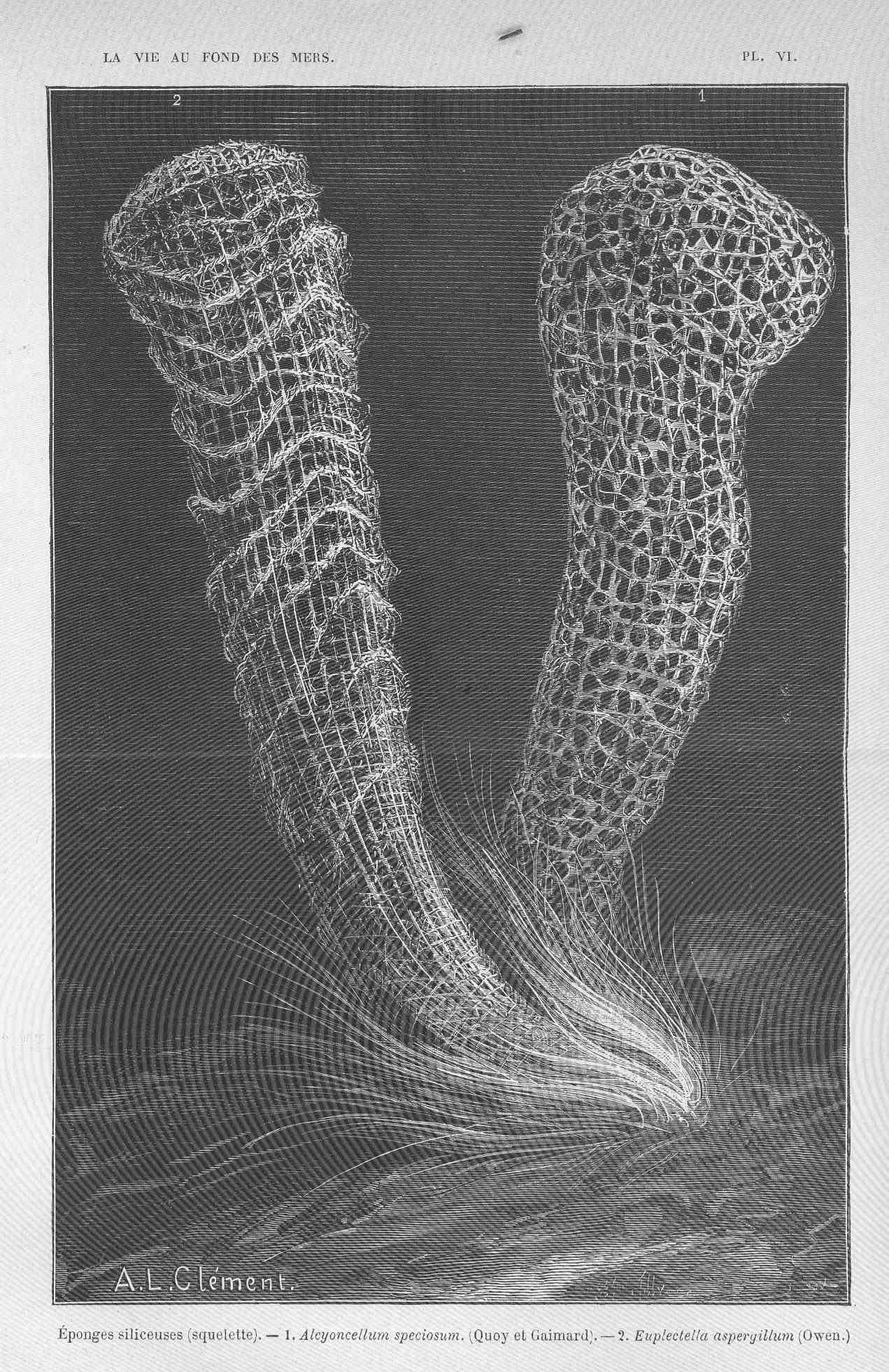 Subject: Sponges, Euplectella, Alcyoncellum Tag: Invertebrates